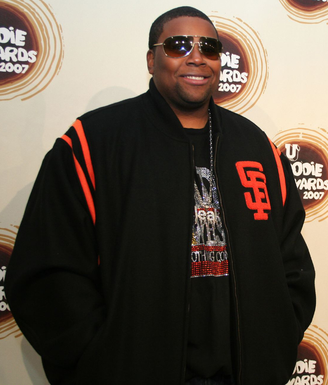 Kenan Thompson at the mtvU Woodie Awards.